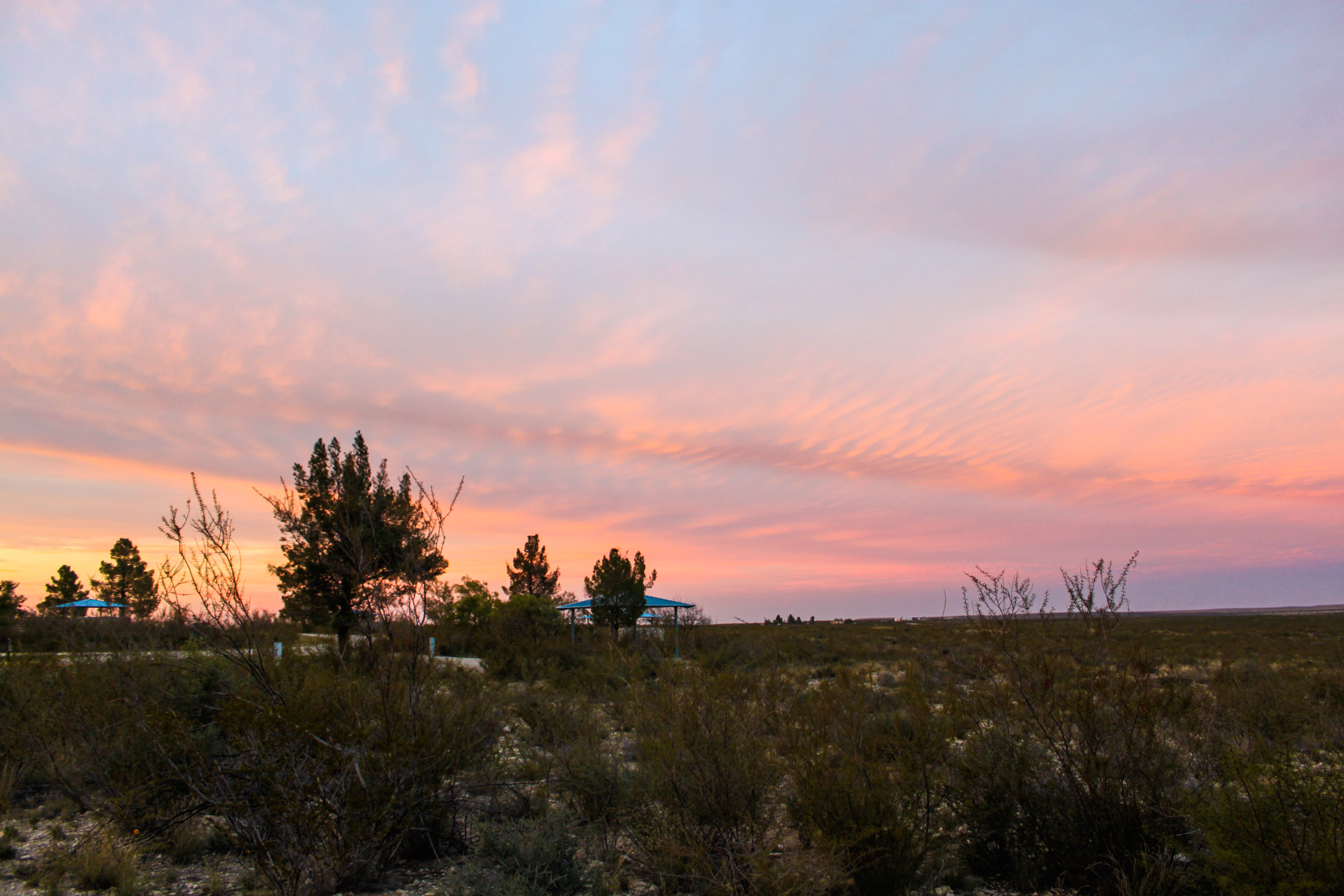 夕陽 Sunset at Brantley Lake State Park, NM